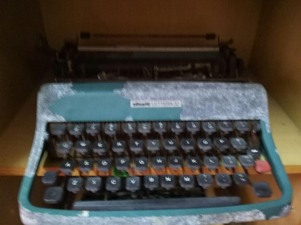 Mesin taip